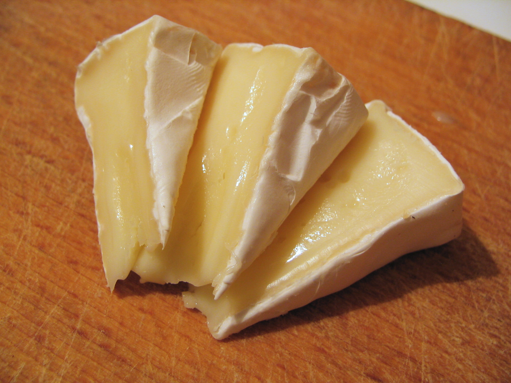 Czech cheese "Hermelin"